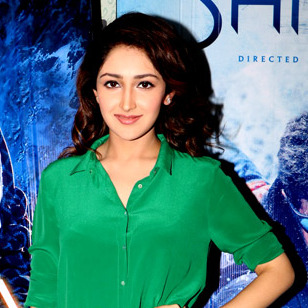 Sayyeshaa Saigal at the trailer launch of Ajay Devgan's Shivaay in Indore, snapped on 7 August 2016.